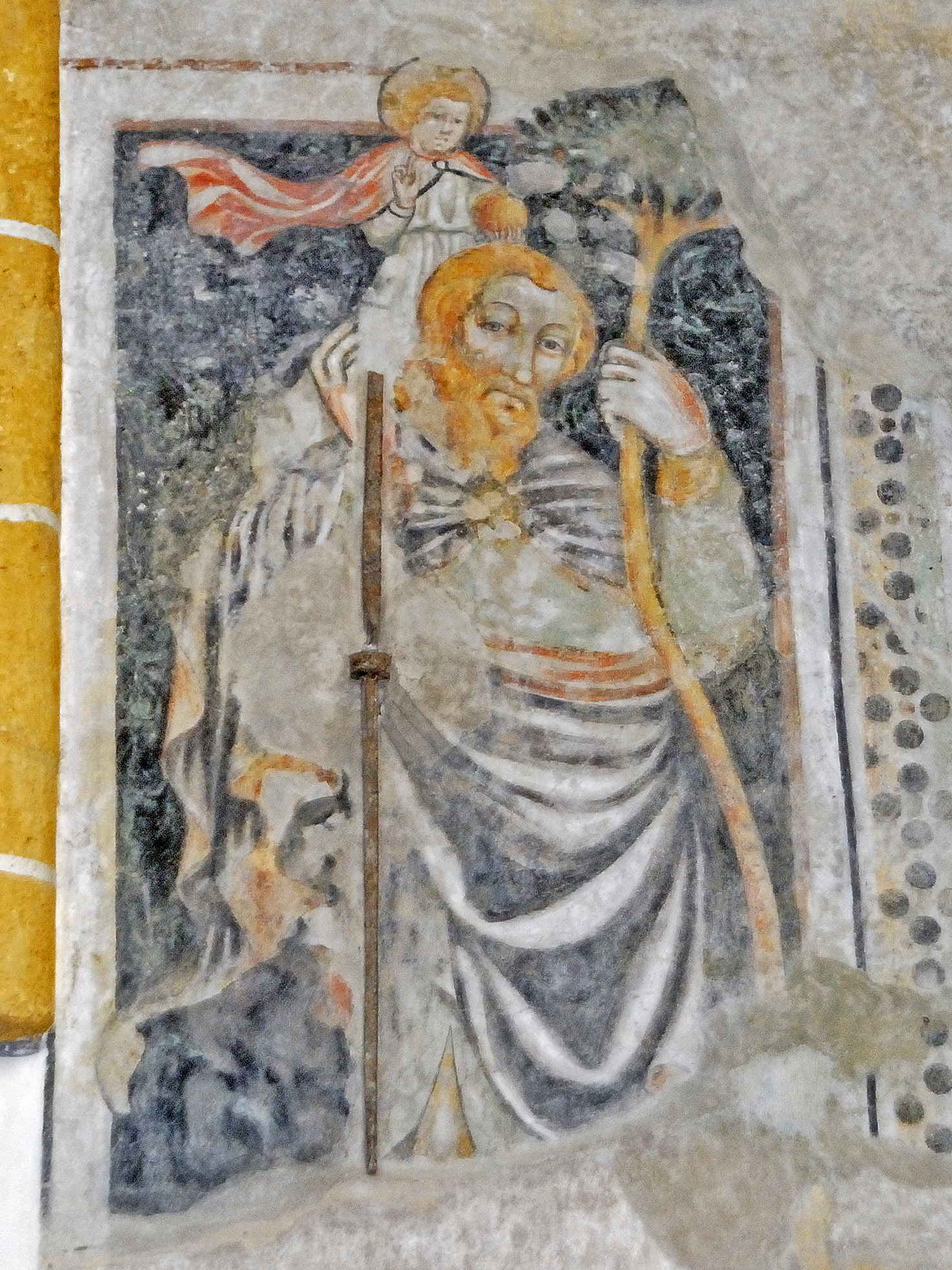 Parish Church of Trofaiach fresco St.Christopher from 1420